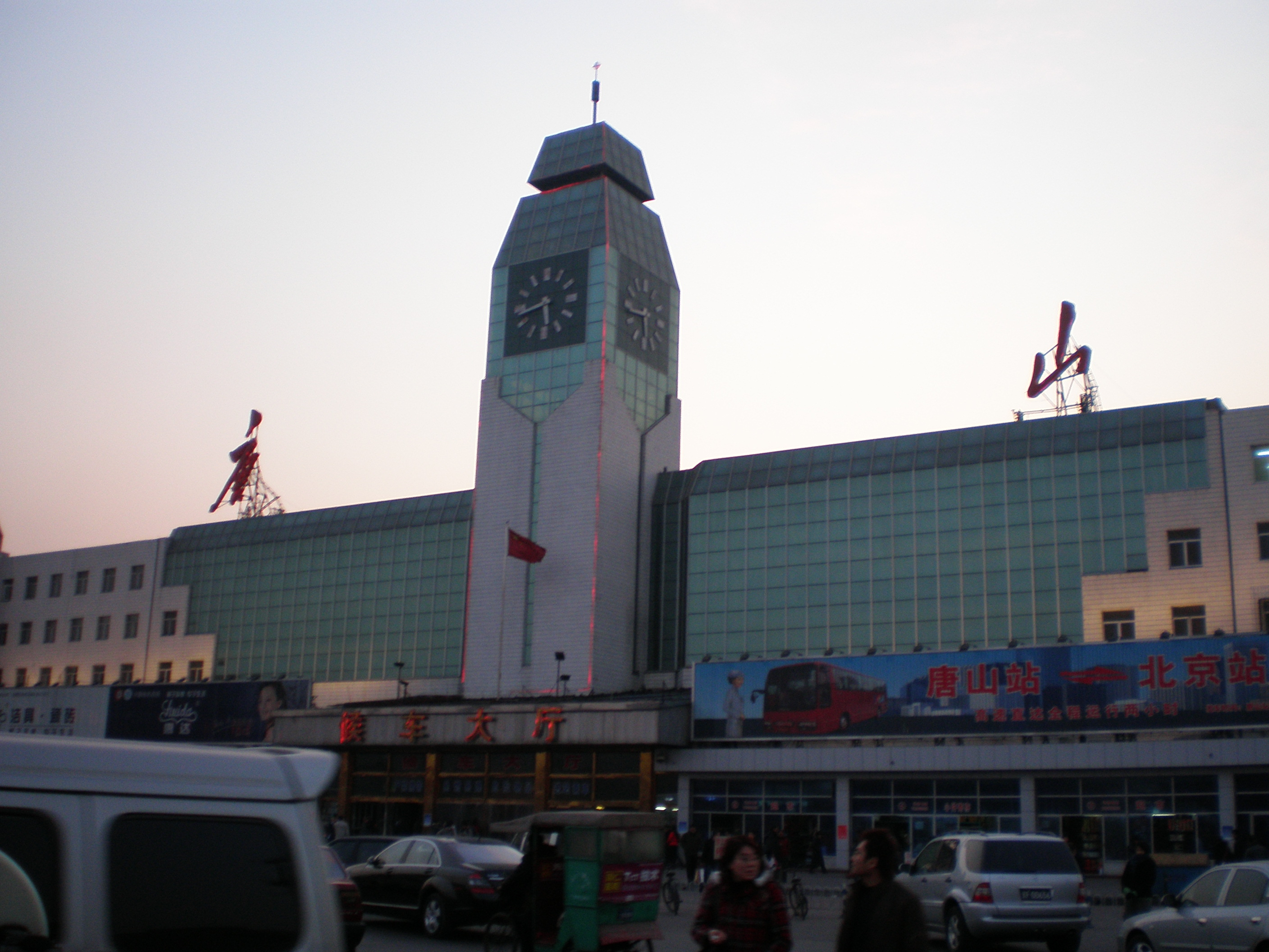 In Tangshan, Hebei, demolished.